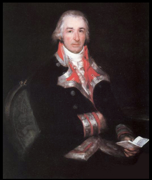 1802: about the male portraits of Francisco de Goya, this is really worthy of mention. it hides his right hand while the other one is holding a piece of paper. This is a classic squeme of Goya’s